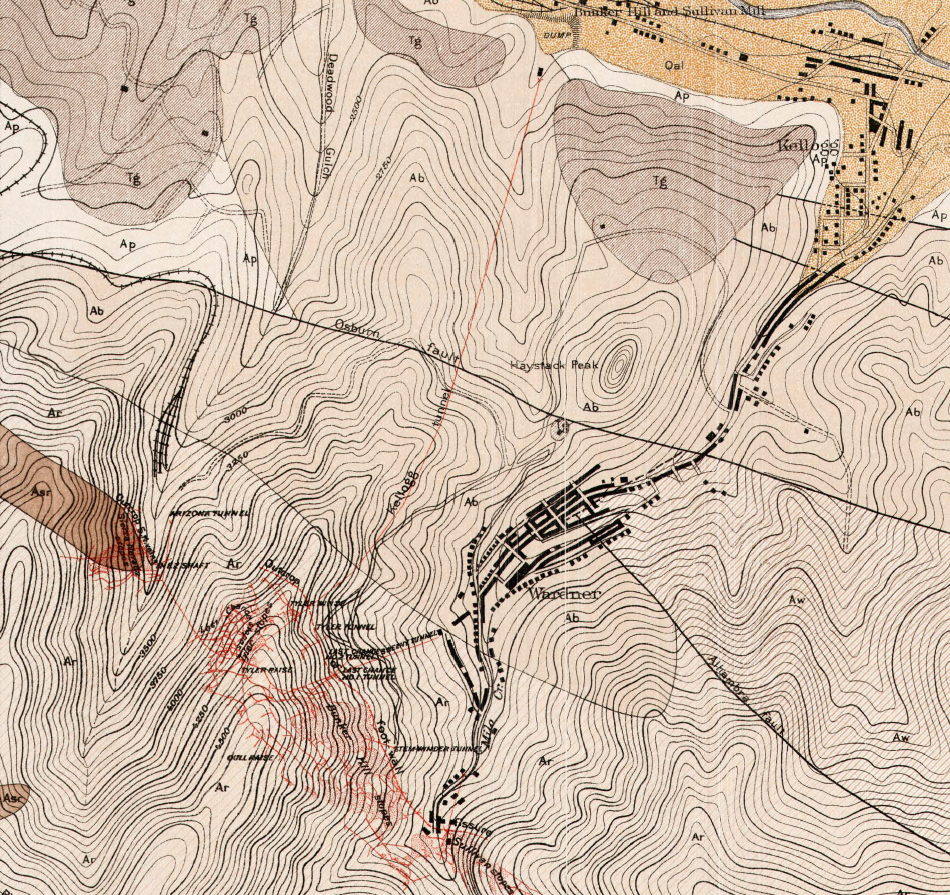 1904 Bunker Hill Mine Stopes Map